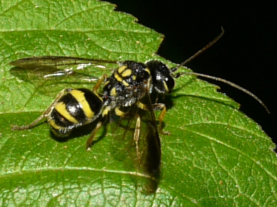 Taeniogonalos gundlachii - A wasp in the Family Trigonalidae. Cross Plains, WI, USA